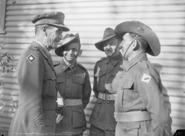 VX9 Major General G. A. Vasey CB CBE DSO, Commanding 7th Australian Division, talking with three men of his unit. Left to right: VX9 Major General G. A. Vasey CB CBE DSO SX3080 Private A. T. Harrigan TX13841 Private E. J. Pitt VX50985 Warrant Officer John Glavin